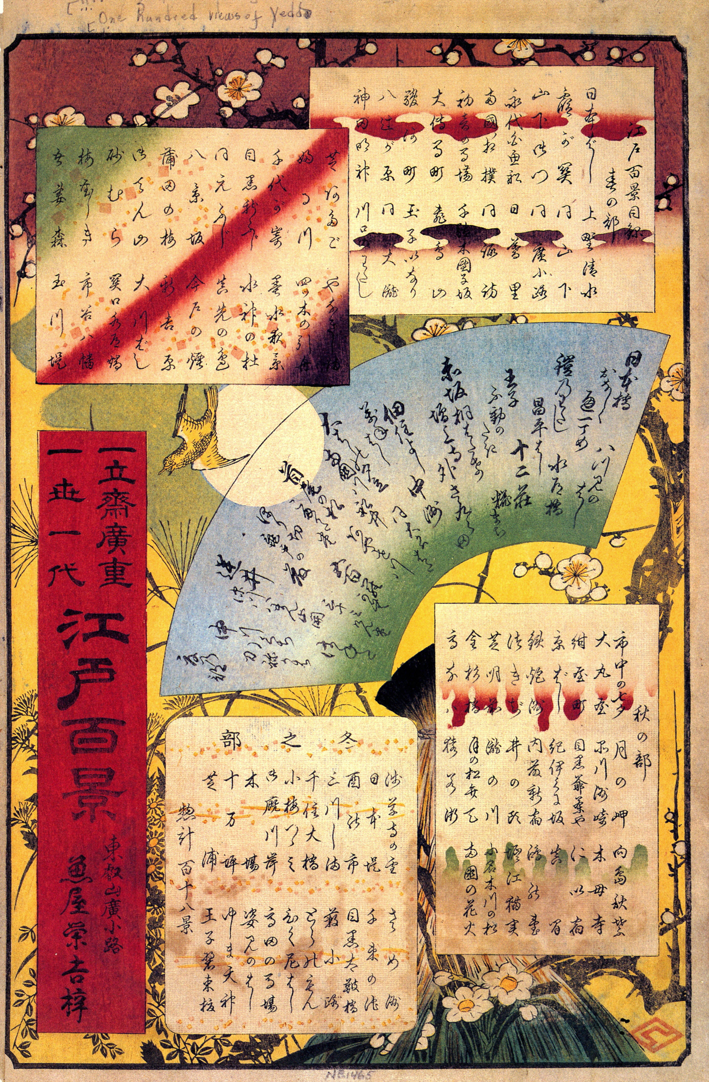 Hiroshige, Table of contents. Abbreviated titles of prints arranged by season: two boxes at top are spring, fan-shaped box is summer, bottom right box autumn and bottom left are winter prints. Red box at bottom left reads 'Ichiryusai Hiroshige, Grand Farewell Performance; One Hundred Famous Views of Edo, Uoya Eichiki of Ueno, Hirokoji.' (the last bit is the publisher's name and address)